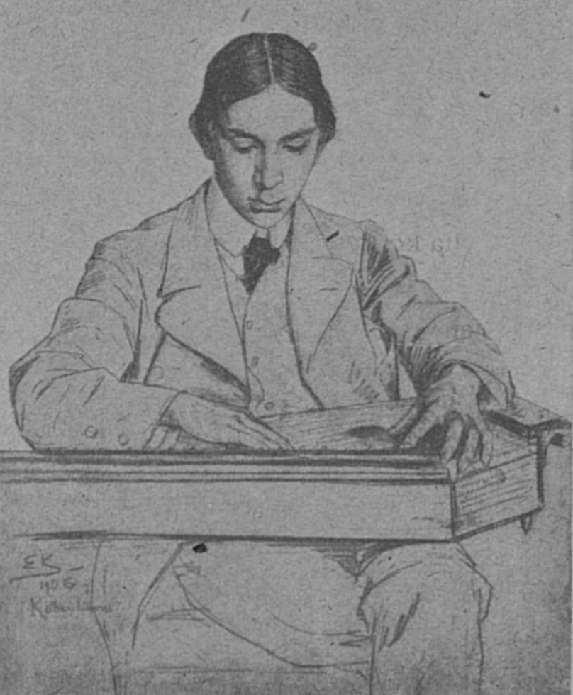 A sketch of a young Olli Suolahti (1885-1951) with his kantele. Unknown artist